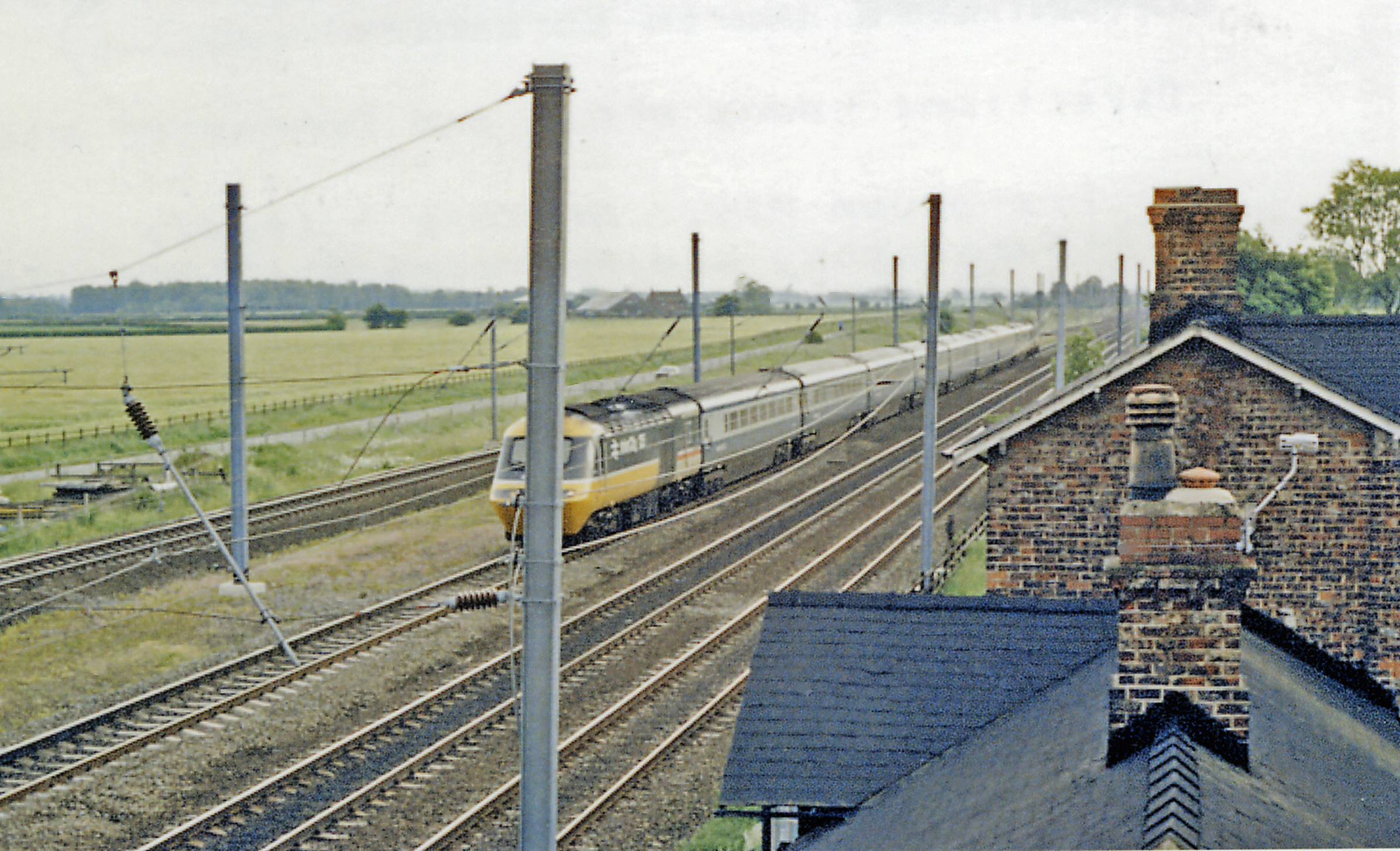 Site of Copmanthorpe station, with Up High Speed Train, 1988. View southward, on the ex-NER main lines to York etc. from Church Fenton, the two furthest tracks - with an HST on the Down - from Sheffield/Normanton/Wakefield/Manchester via Burton Salmon, also since 10/73 from Doncaster and the South by the ECML; the two nearest tracks are the lines from Leeds and Manchester. Copmanthorpe station was closed to passengers from 5/1/59, to goods from 4/5/64.